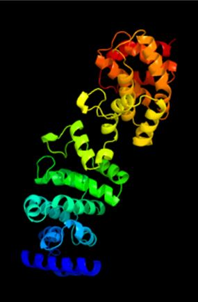 Structure of BZW2 as predicted by PHyre2